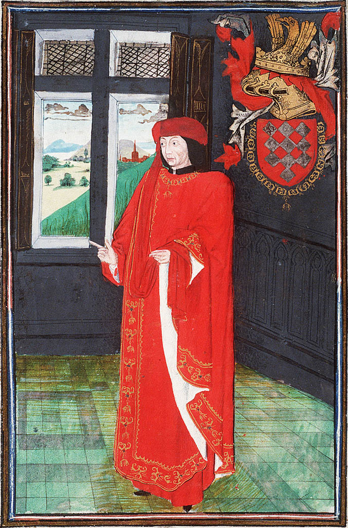 Statuts, Ordonnances et Armorial de l'Ordre de la Toison d'Or (Statutes, Ordonnances and armorial of the Order of the Golden Fleece) Place of origin, date: Southern Netherlands; 1473. Added sections: Southern Netherlands; 1478 or shortly after and 1491 or shortly after Material: Vellum, ff. 86, 249x187 (167x106) mm, 23 lines, littera cursiva (lettre bourguignonne). French. Binding: 18th-century brown leather Decoration: 1 full-page miniature (170x115 mm) with border decoration; 92 miniatures (185/155x120/100 mm); 1 historiated initial (80x90 mm) with border decoration; decorated initials with border decoration (ff., Added section: miniatures ; 4 drawings for miniatures (not finished) Provenance: Presented in 1473 by Gilles Gobet, King of Arms of the Order of the Golden Fleece, to Charles the Bold, Duke of Burgundy and the other Knights during the Chapter of the Order held at Valenciennes; Treasure of the Golden Fleece, Brussls; taken away by the Treasurer C.-F. Humyn (d. 1735) or his daughter C.Ch. de Corte; by legacy to her daughter M.-L. de Corte, wife of Ph.-E. de Poederlé; purchased in 1781 at the Poederlé sale by G.-J- Gérard of Brussels; acquired in 1832 as part of the Gérard collection (no. A 27)